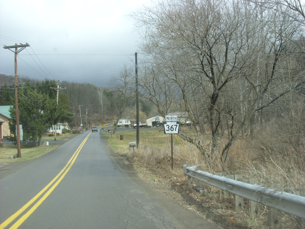 Pennsylvania State Route 367 heading northward through Braintrim Township.